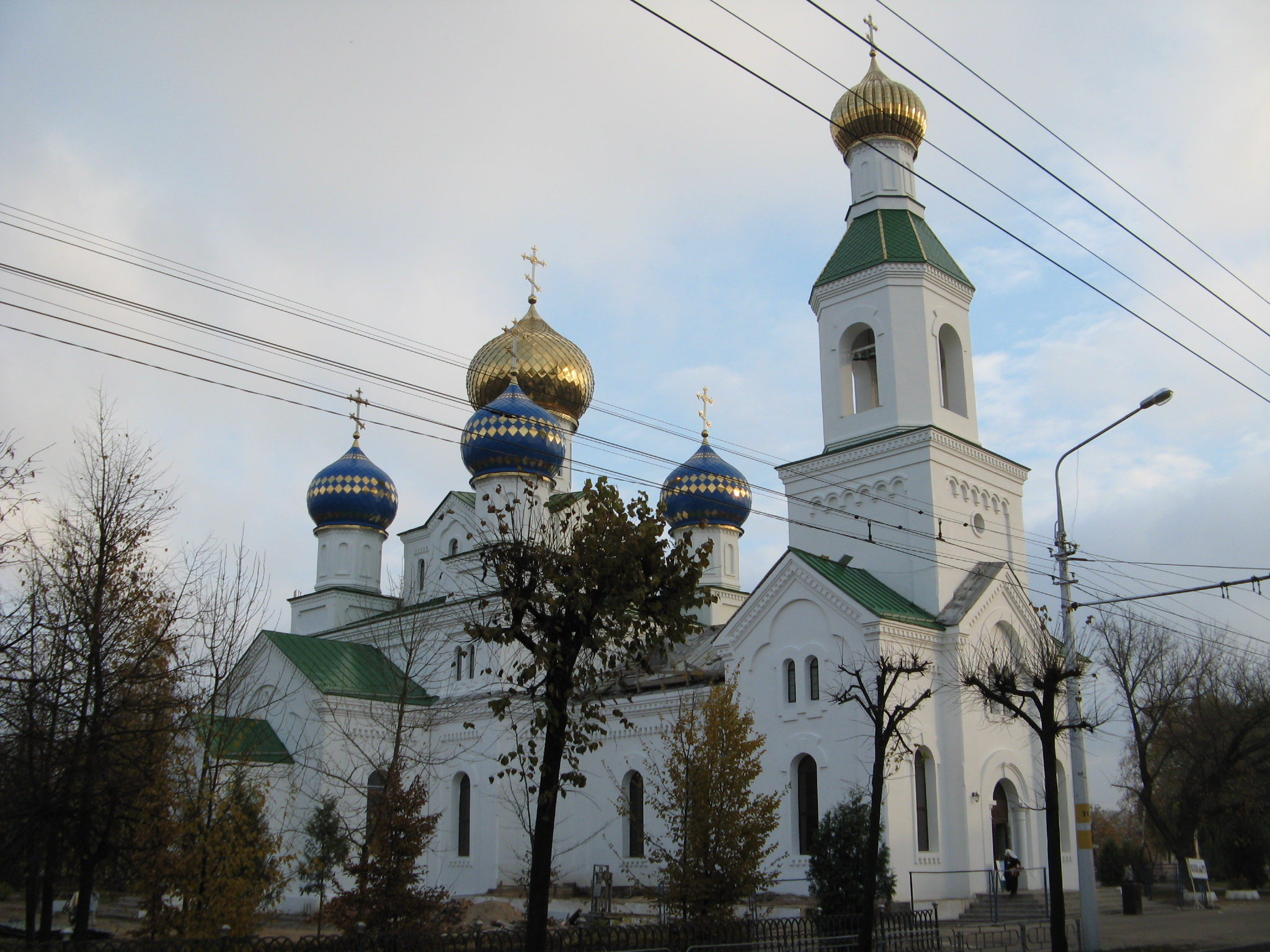 Babrujsk orthodox church of St.Nicholas